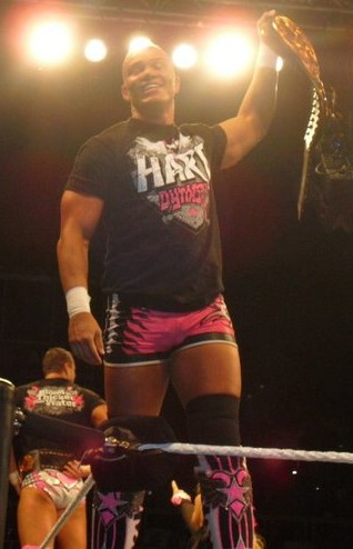 Tyson Kidd as WWE Tag Team Champion